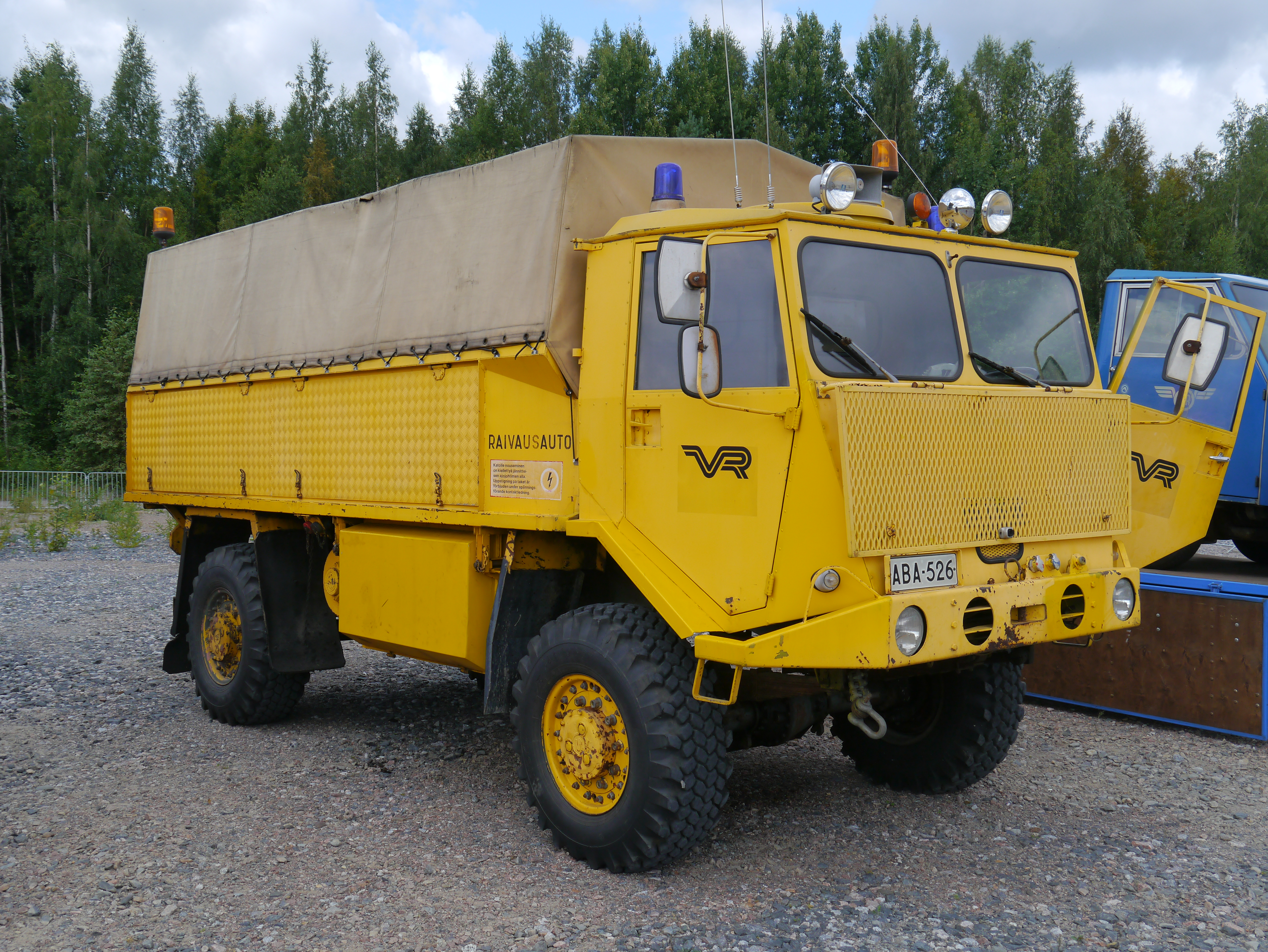 Old emergency truck of Finnish Railways (Valtion rautatiet, VR). The truck is based on military truck Sisu A-45. A-45 was introduced in 1970. Engine is Leyland EO-401 producing 103 kilowatts.